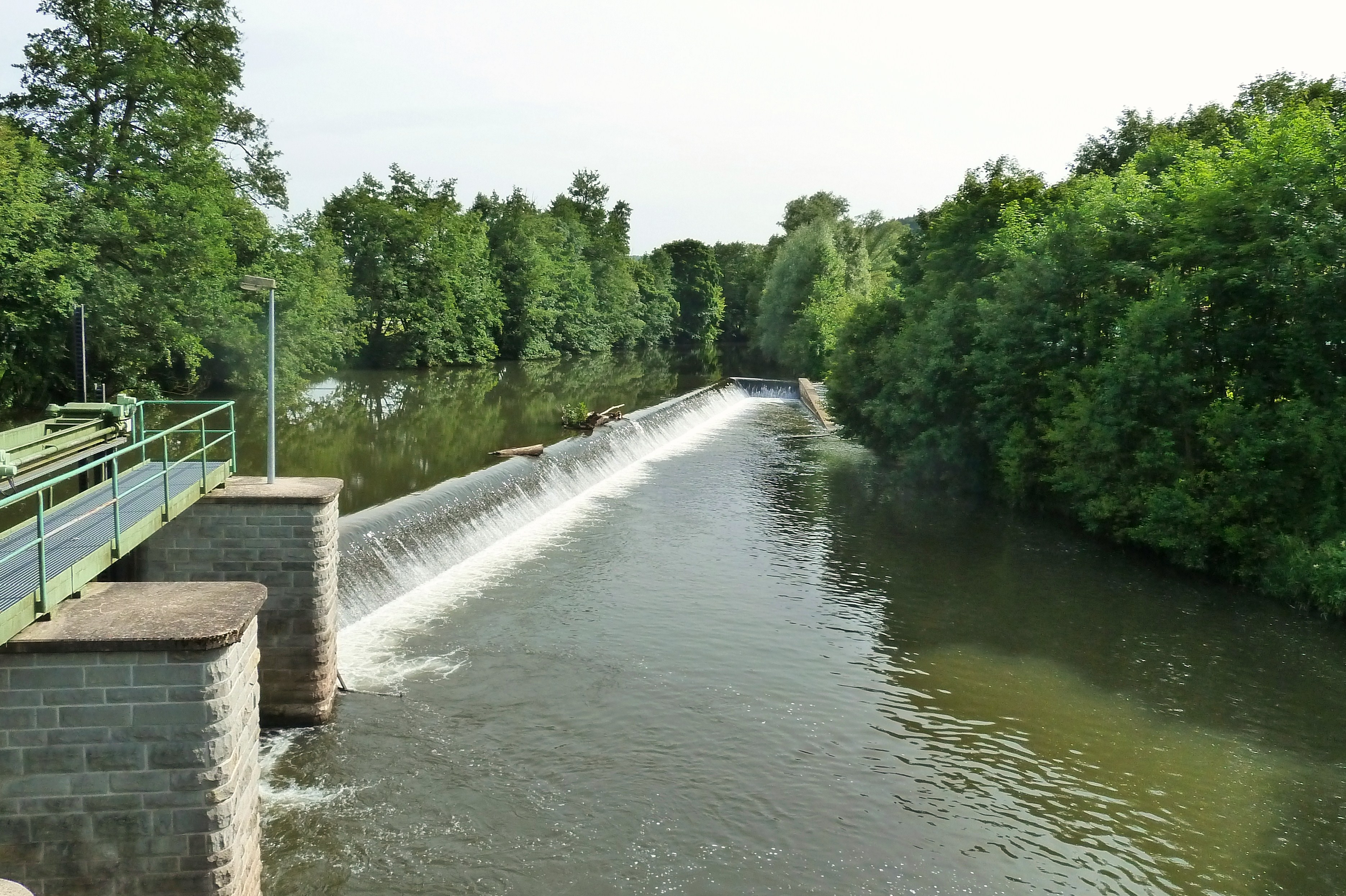 Werra River in city Meiningen, Germany